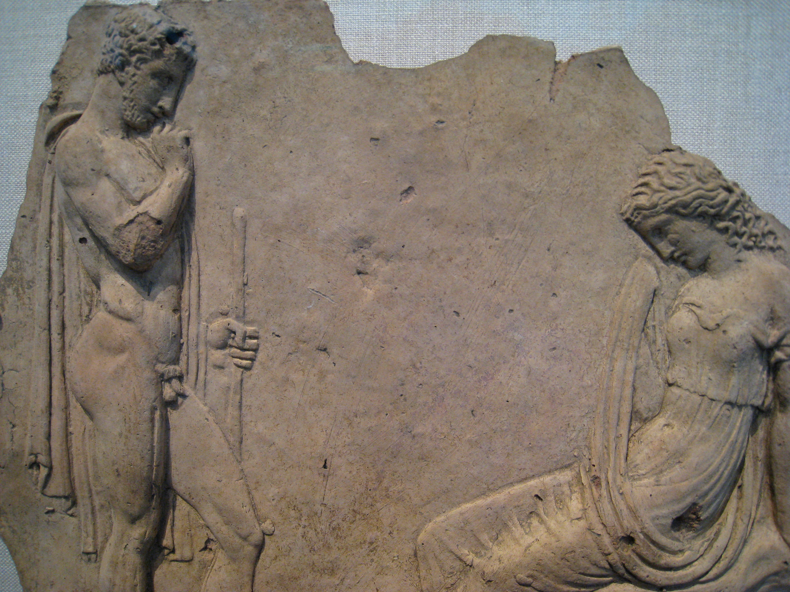 Pelops and Hippodamia; Base relief, Metropolitan Museum, New York City